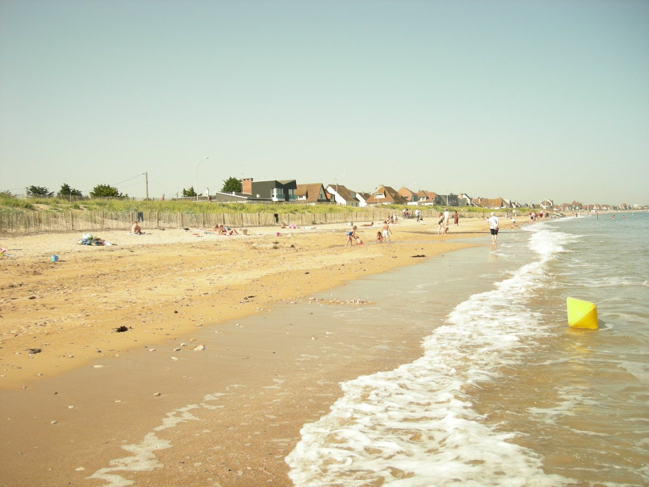 Beach of Colleville Montgomery